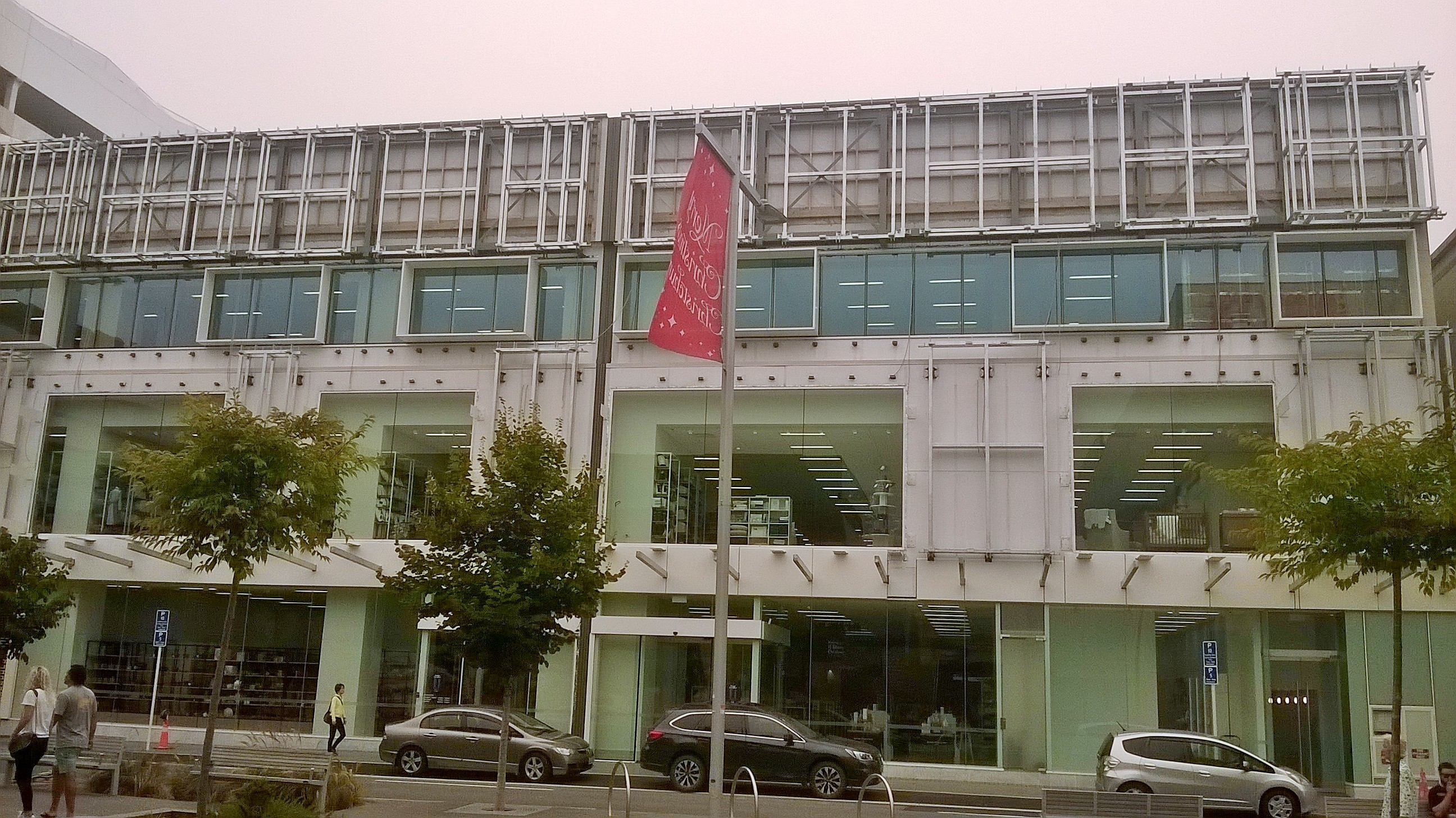 Ballantynes' extension 43 Litchfield st in January 2020